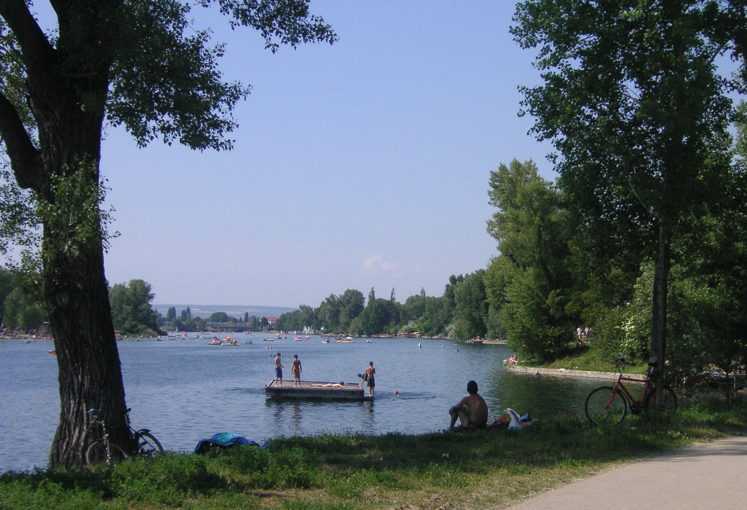 The "Alte Donau" ("Old Danube"), a former arm of the river Danube, now a lake in Vienna's 22nd district, Donaustadt, is the equivalent of Berlin's Wannsee.